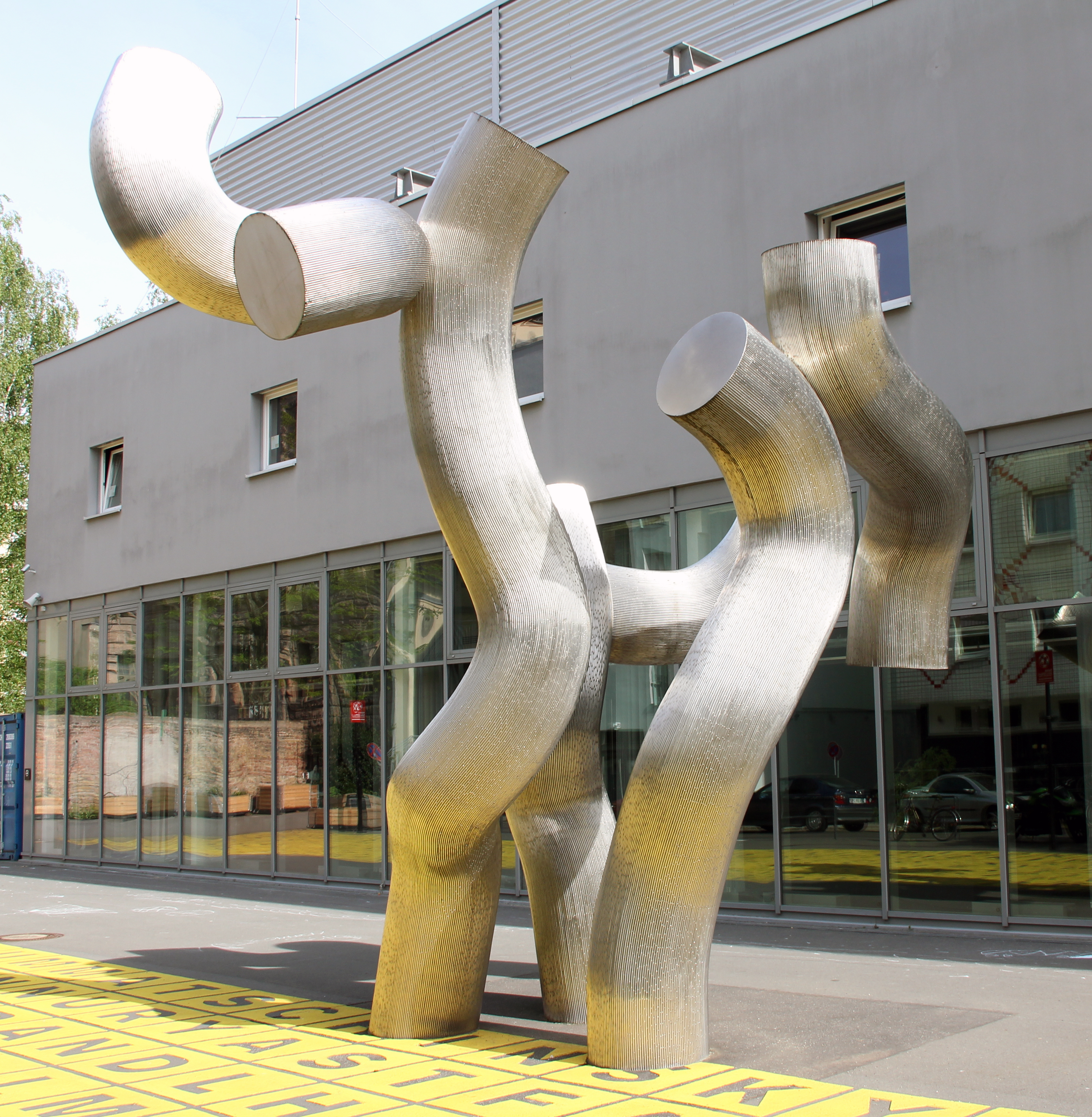 Sculpture, "Dreiheit" by Brigitte and Martin Matschinsky-Denninghoff, 1992, Alte Jakobstraße 129, Berlin-Kreuzberg, Germany